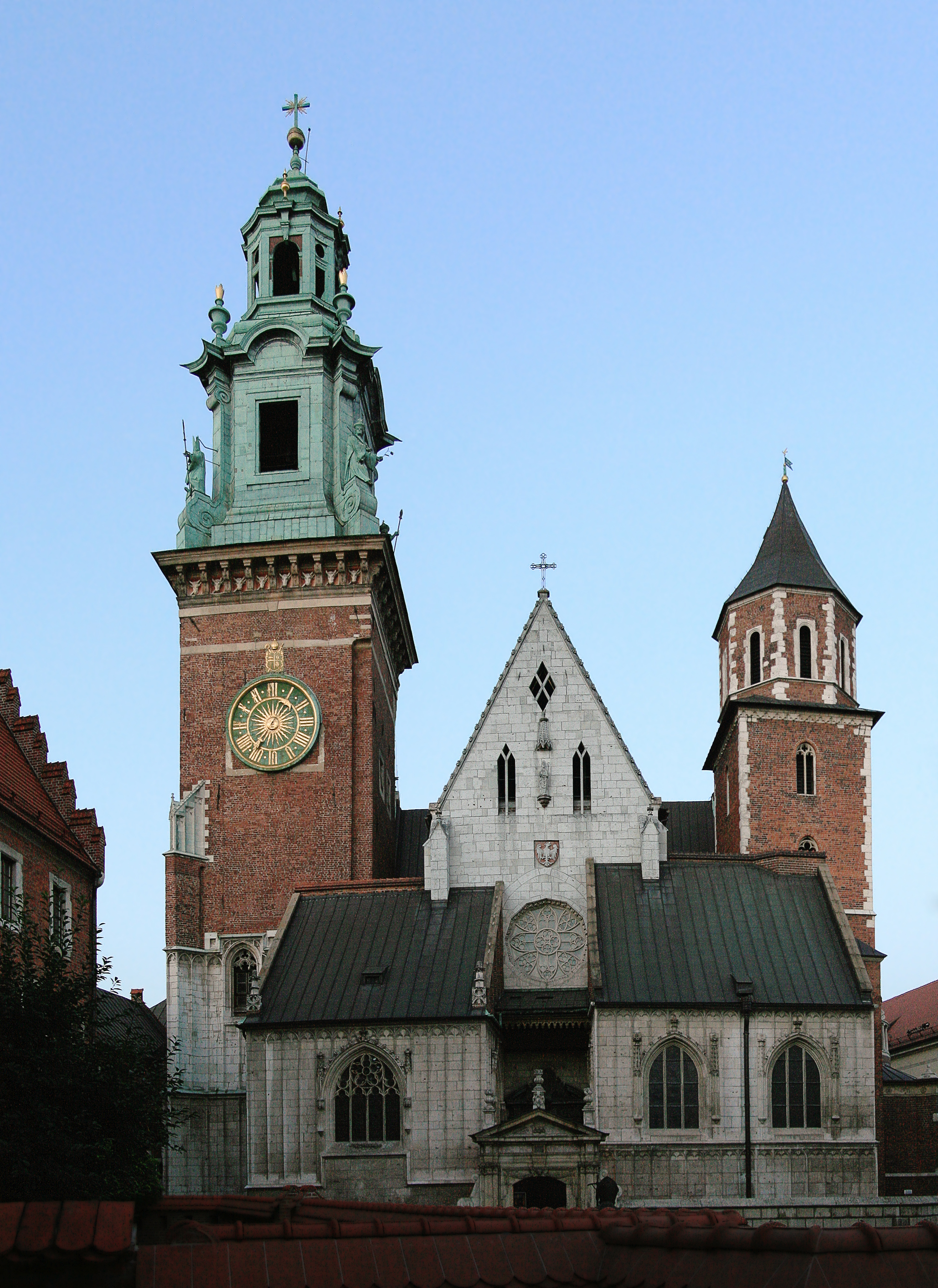 Wawel Cathedral, Krakow